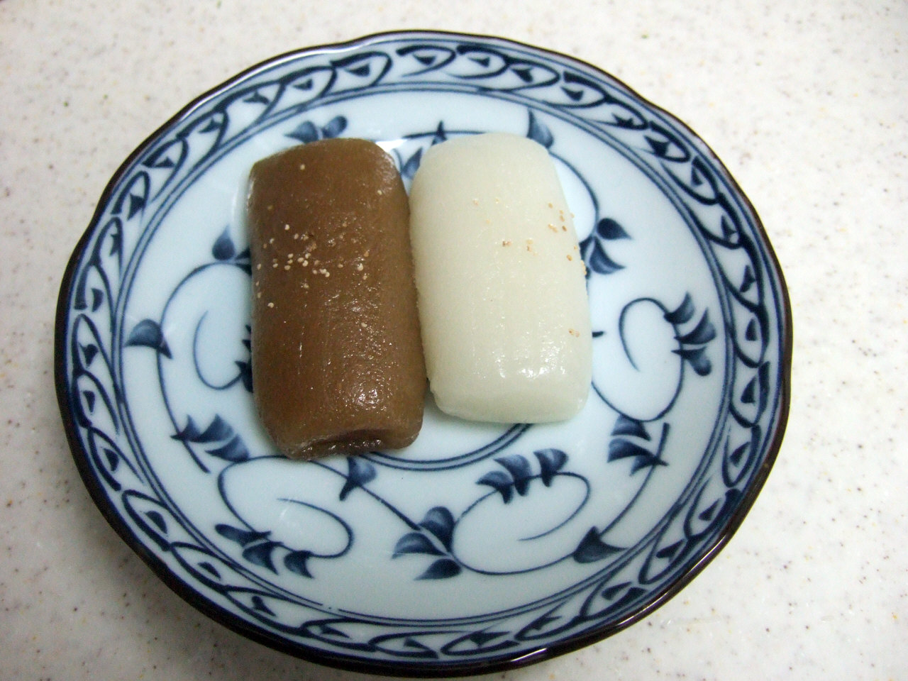 Goboumochi